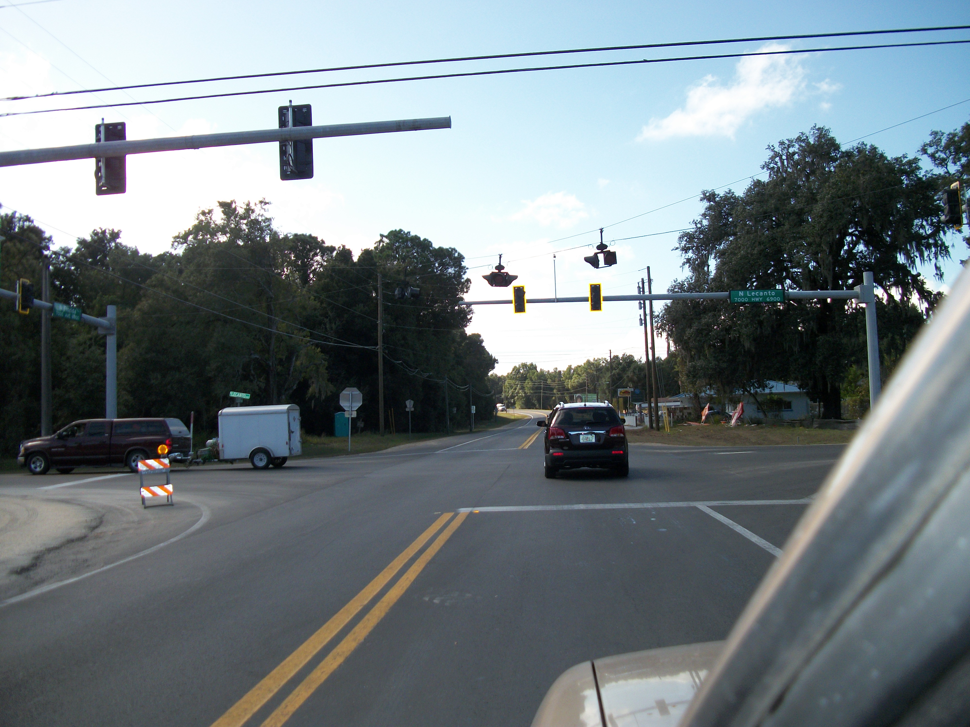 Southbound U.S. 41 at the intersection of Citrus County Road 491 in Holder, Florida. FDOT was replacing the blinker lights with normal traffic signals at the time. It could've used some full left-turn signals too.